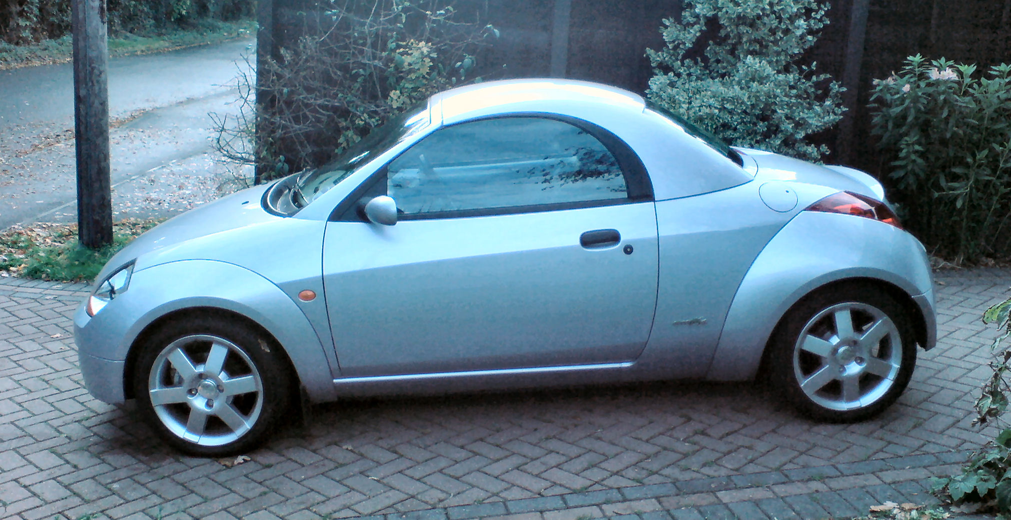 Hard top on wife's StreetKa. We just got this roof and I was too lazy to get the SLR. This is a phone camera shot.